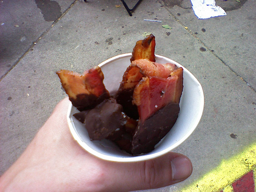 Chocolate covered bacon from Minnesota State Fair, August 24 2008, photo by TwisterMc (Flikr), attribution required. Photo caption is: "I'd love to say the chocolate covered bacon was good... but it wasn't. Way too salty and it just didn't work" Source.